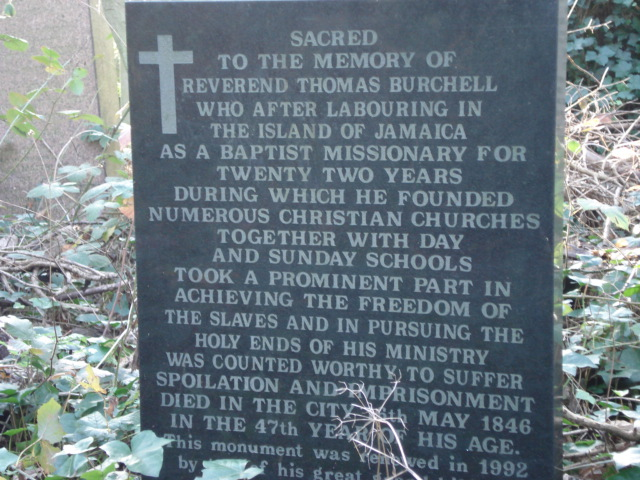 Thomas Burchell's memorial, erected in 1992 at Abney Park Cemetery by two of his great-grandchildren.